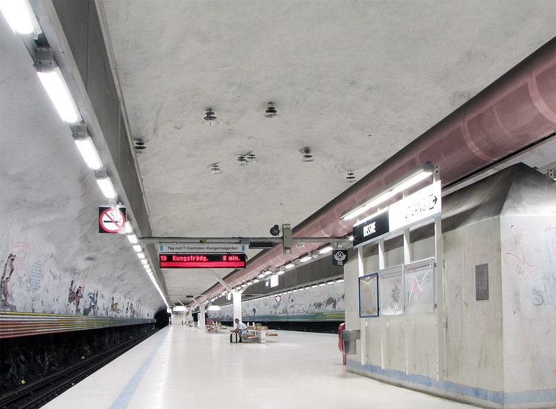 Rissne subway station in Stockholm, Sweden